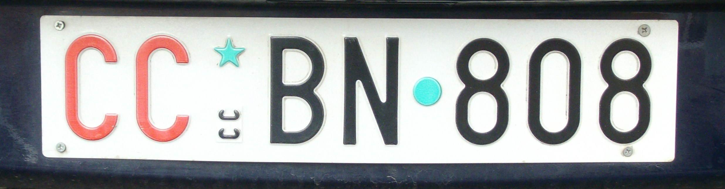 Vehicle registration plates of Italy, the registration plate in use for the Carabinieri.